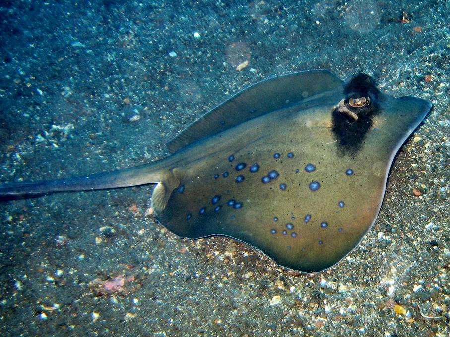 Bluespotted stingray (Dasyatis kuhlii) off Bali, Indonesia.